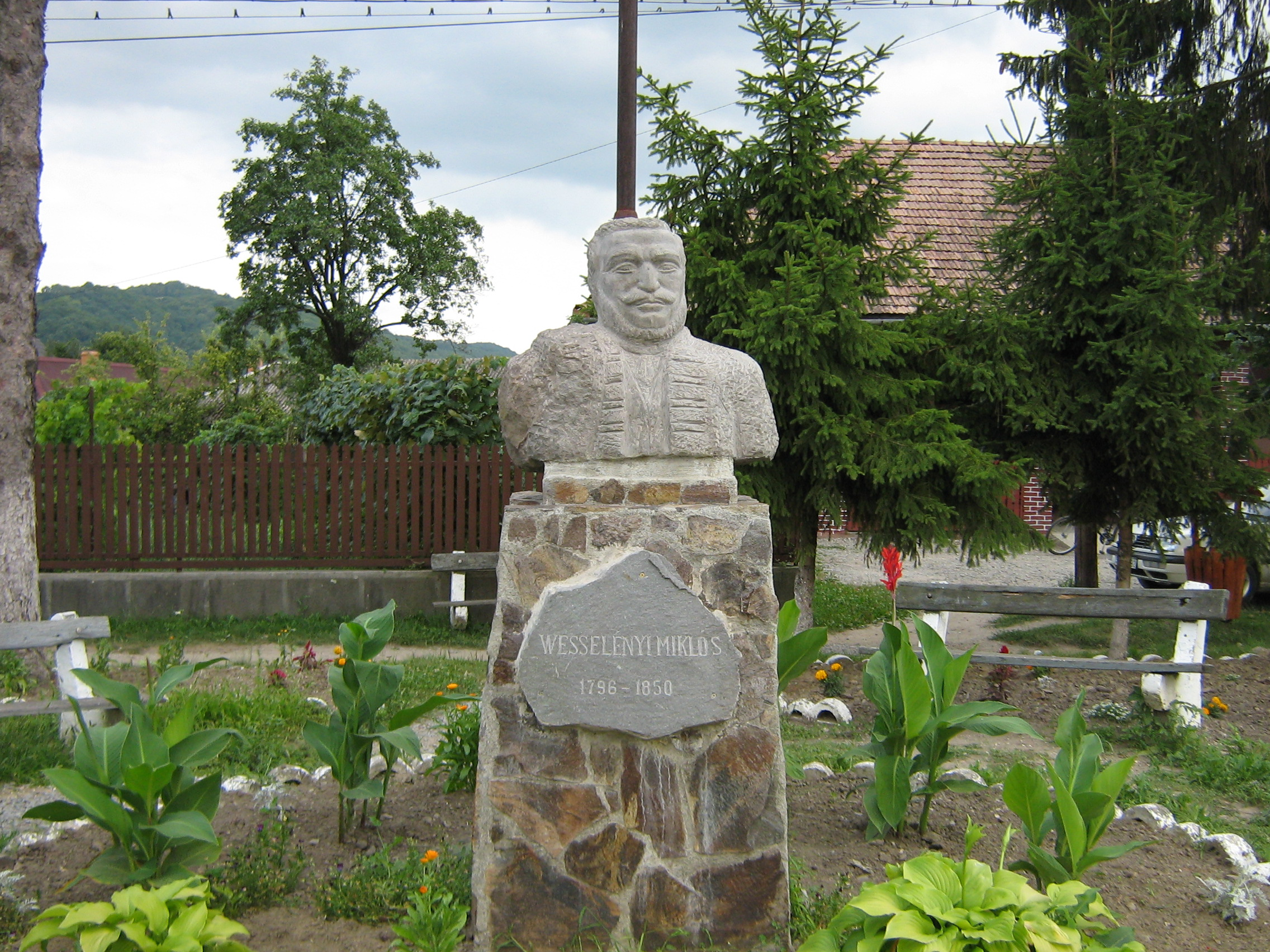 Statue of Miklós Wesselényi in Makfalva